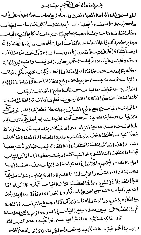 First page of the manuscript of "Asas al-Qiyas" by Al-Ghazali. In the Hacı Beşir Ağa collection, Süleymaniye Library, Istanbul.